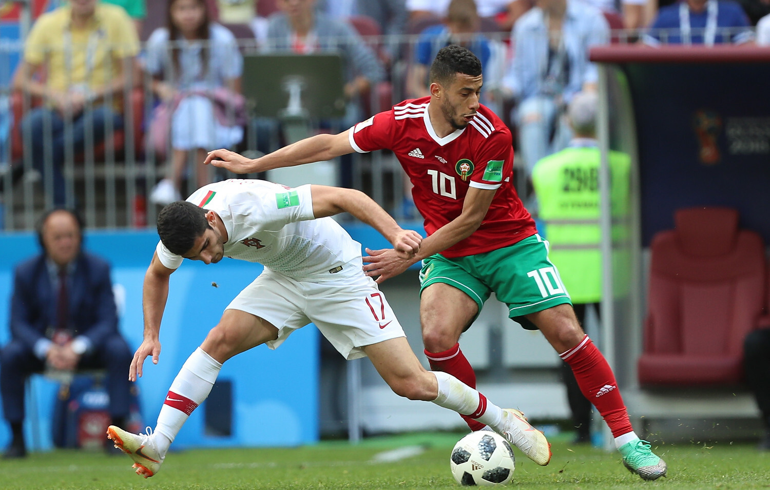 Portugal-Morocco match, 2018 FIFA World Cup